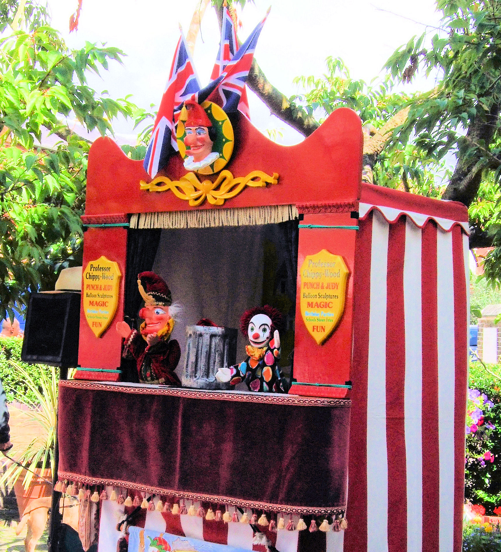 Prof. Chippy Wood proudly presents the age old story of Punch & Judy.